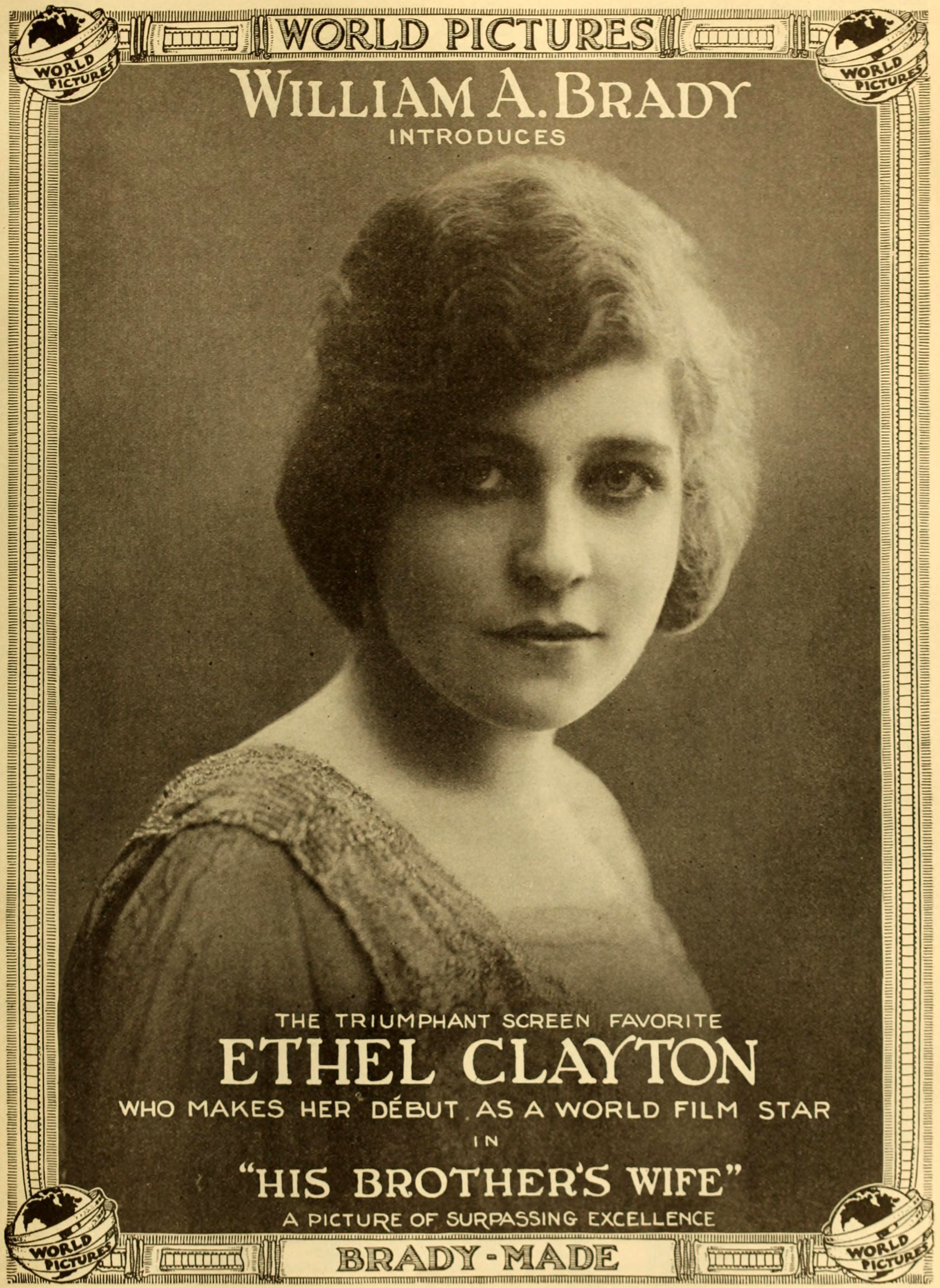 Advertisement in The Moving Picture World